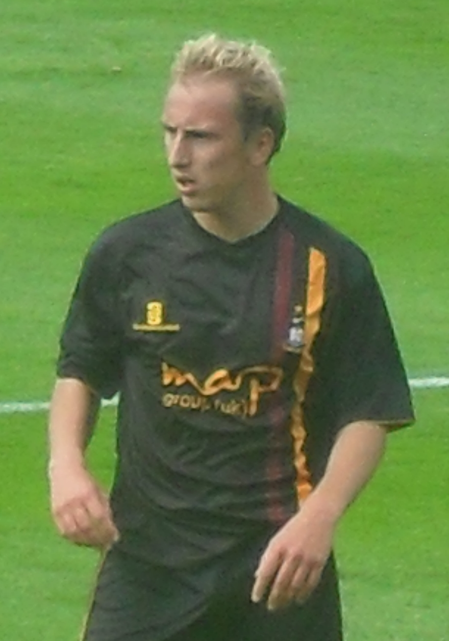 Luke O'Brien playing for Bradford City against York City at Bootham Crescent, York on 18 July 2009